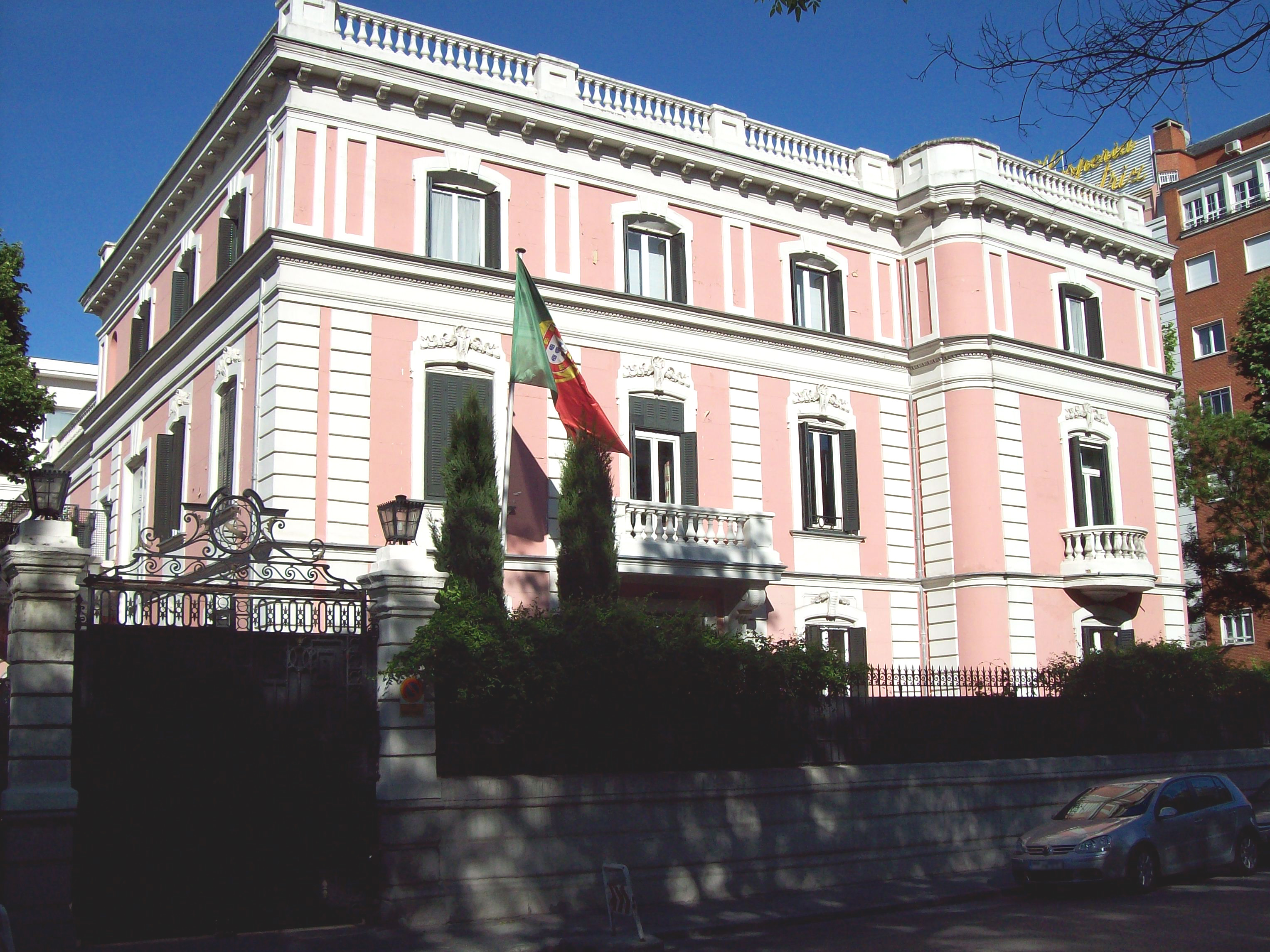 Seat of the Portuguese Embassy in Madrid (Spain), at 1st Calle del Pinar (street) in Salamanca district. Building was projected by architect Joaquín Saldaña and built from 1906 to 1908.